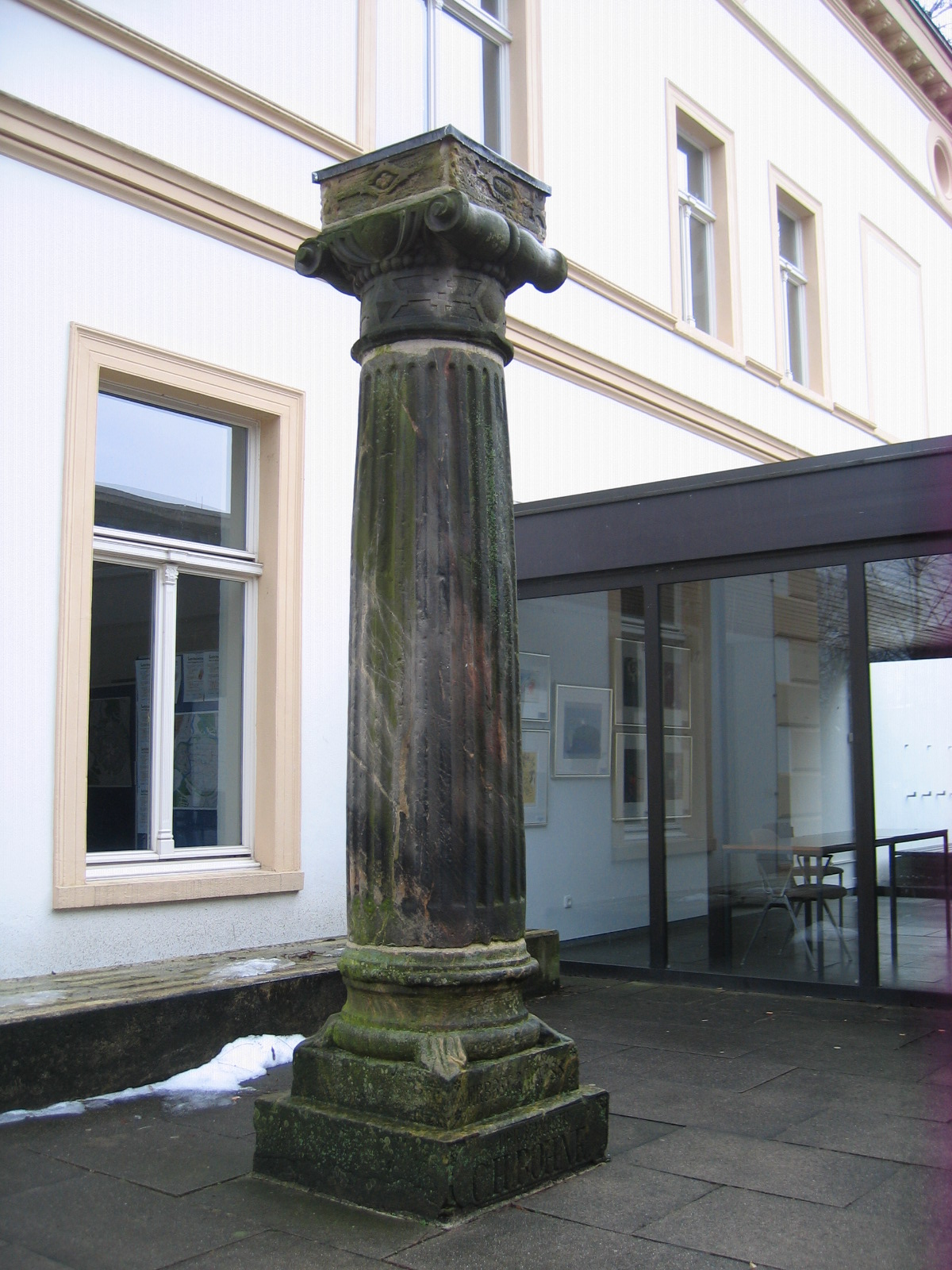 in Herford, District of Herford, North Rhine-Westphalia, Germany.